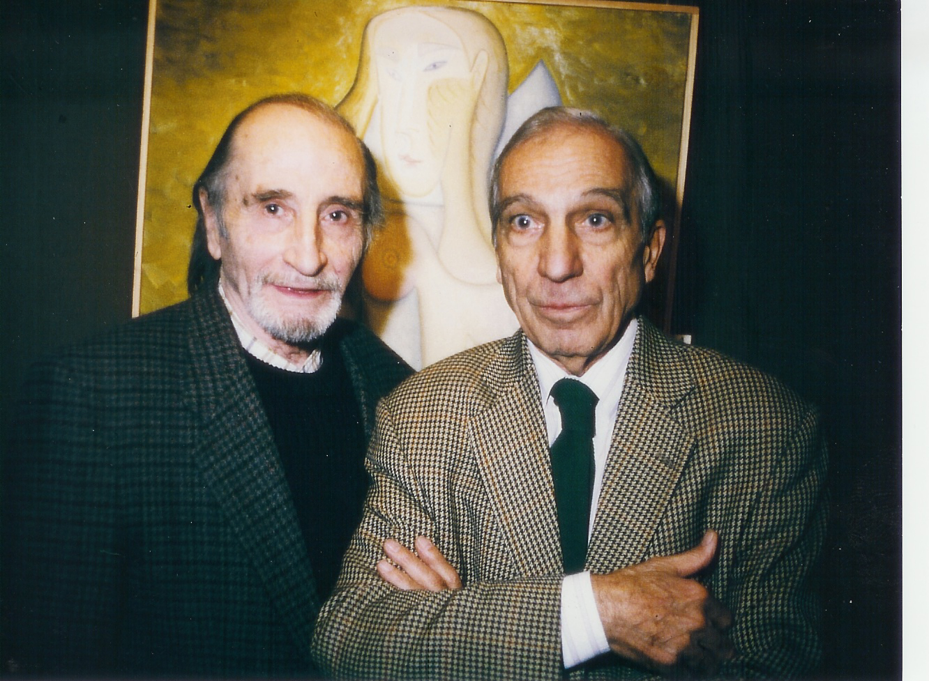 The painters Joan Capella and Javier Vilató at Sala Dalmau, Barcelona. November 1999